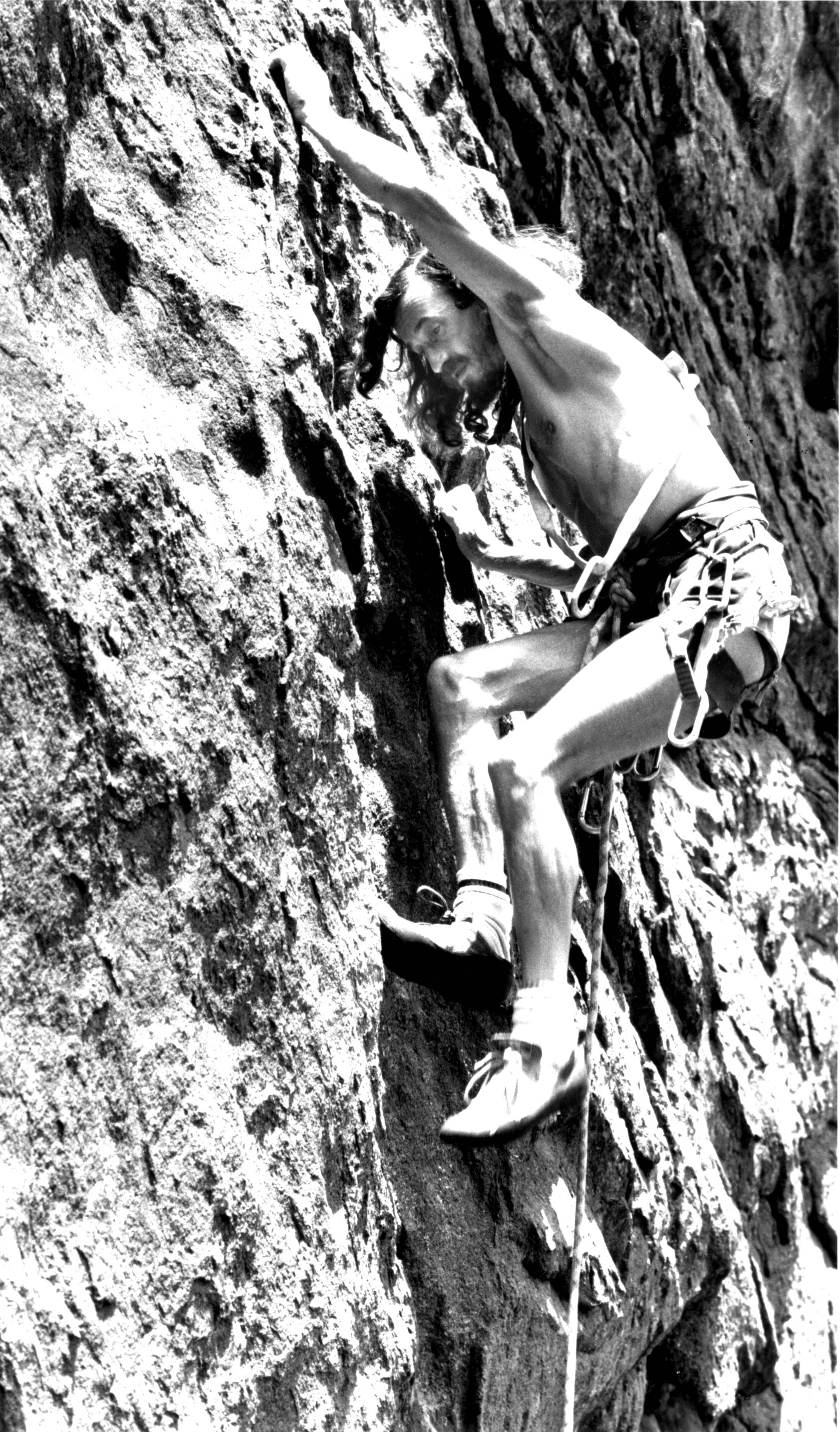 Master soloist Derek Hersey starts "the Bulge" in Eldorado Canyon, Colorado. Photo by Pat Ament.